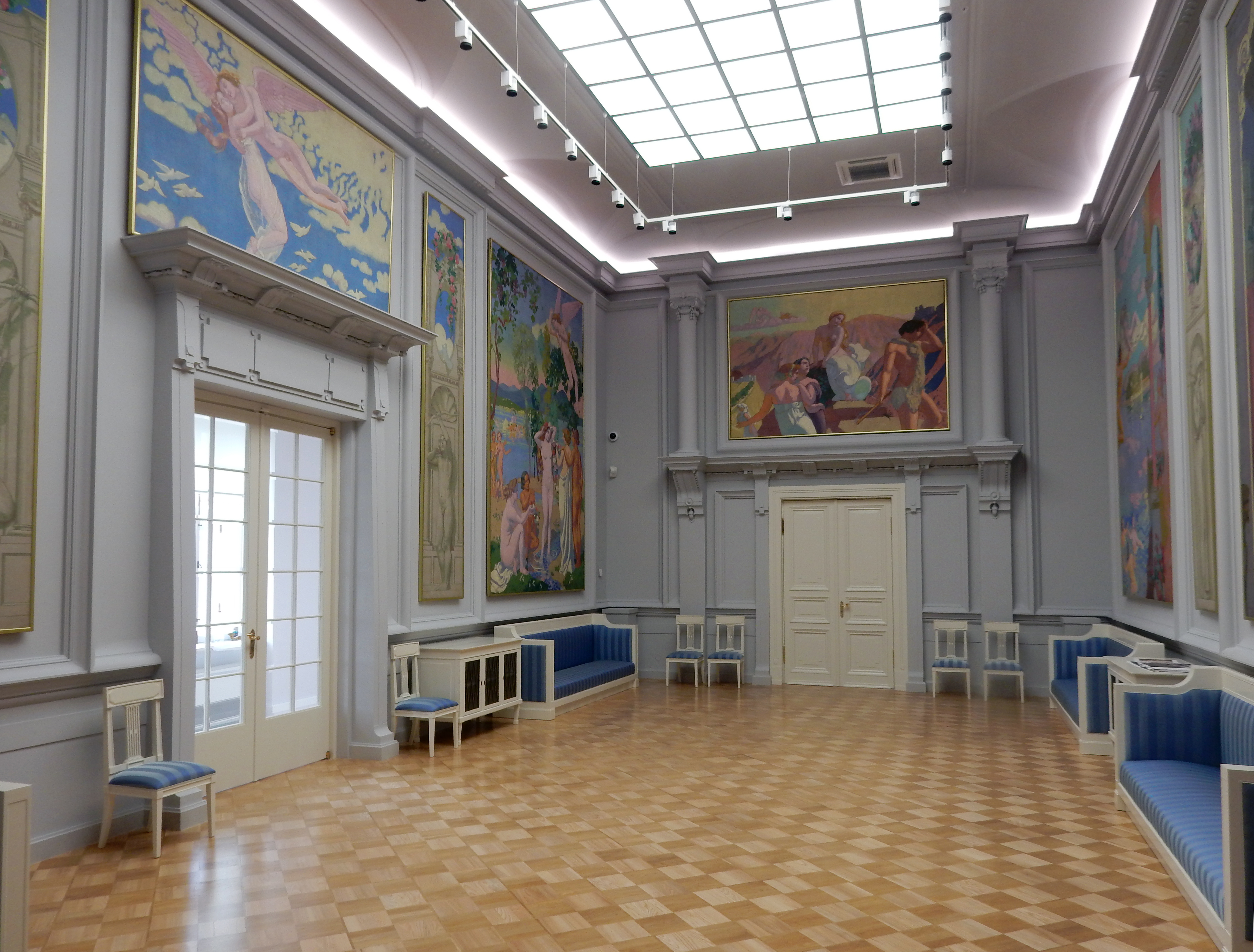 The permanent exhibition of "The Story of Psyche" by Maurice Denis in a reconstruction of the music room interior of the mansion of Ivan Morozov in the Hermitage Museum